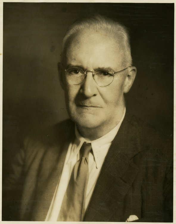 Harold Albert Wilson (1874 – 1964) English physicist (circa 1940)